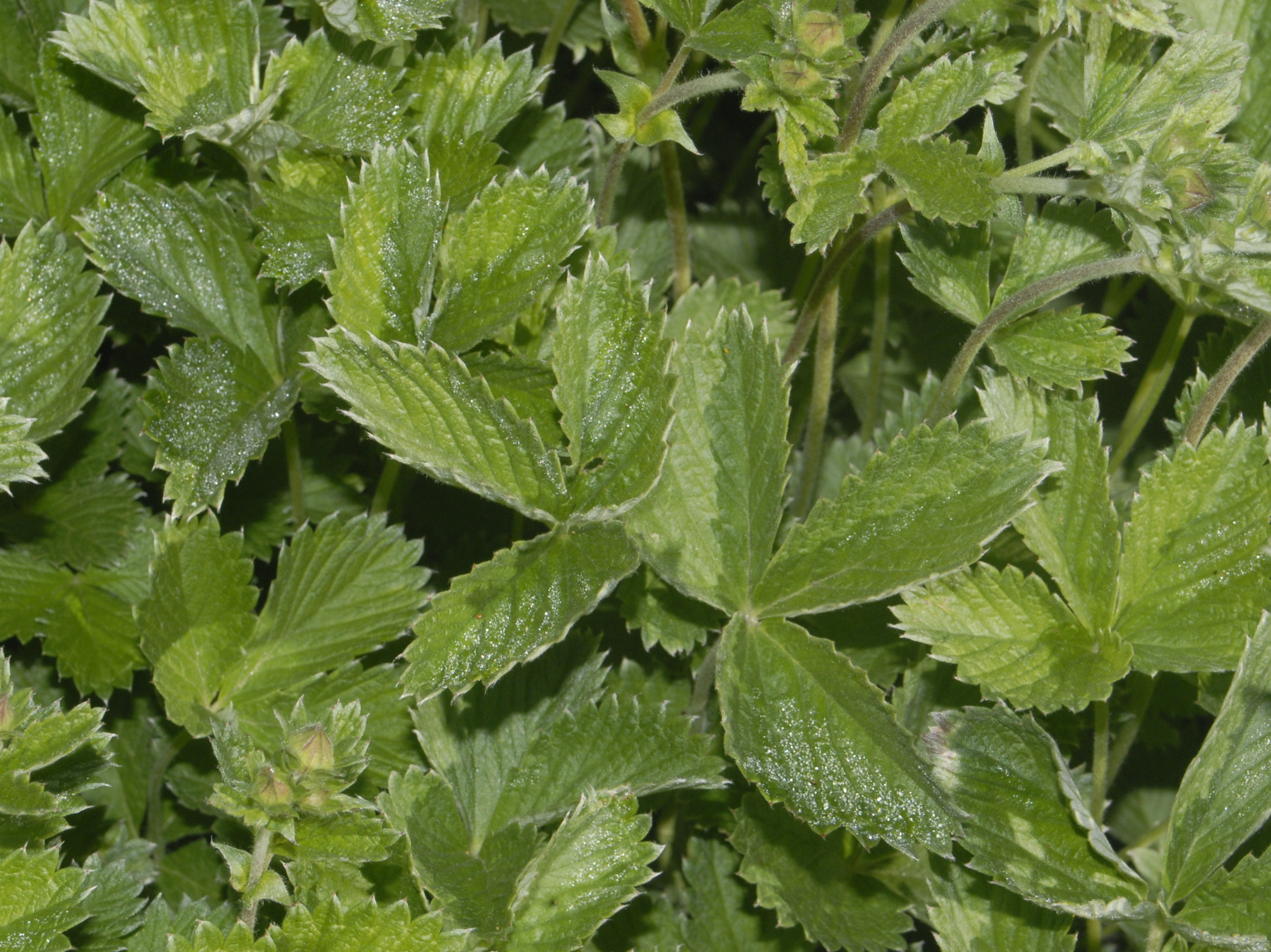 Foliage of Potentilla nepalensis at the Giardino Botanico Alpino Chanousia